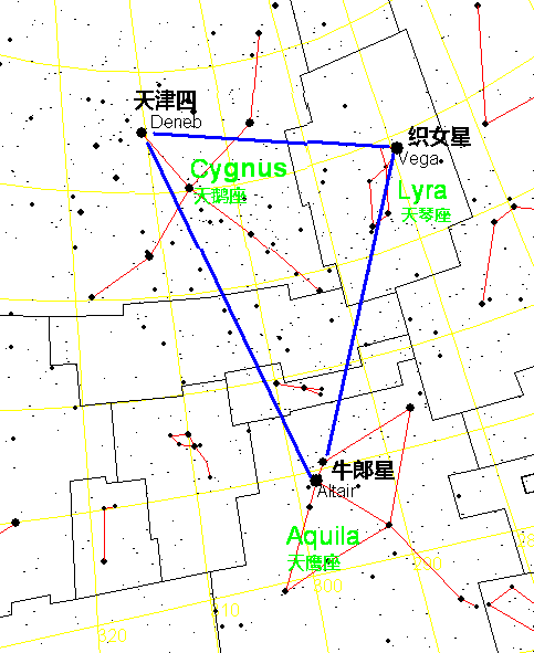 The Summer Triangle